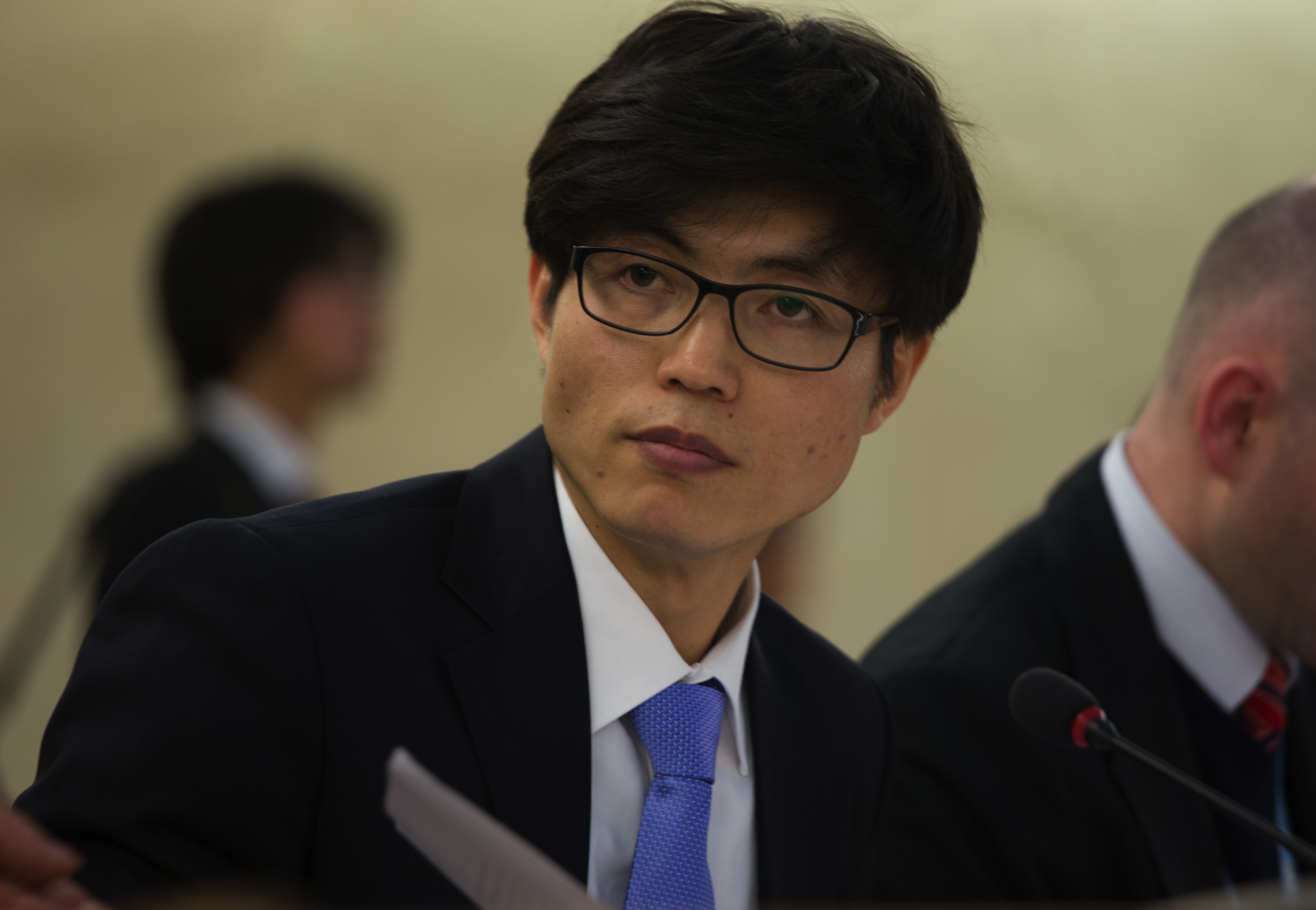 Shin Dong-Hyuk, North Korean defector and author of Escape from Camp 14, addressed the United Nations Human Rights Council. The United Nations Commission of Inquiry on North Korea formally presented its report to the Human Rights Council March 17, 2014.